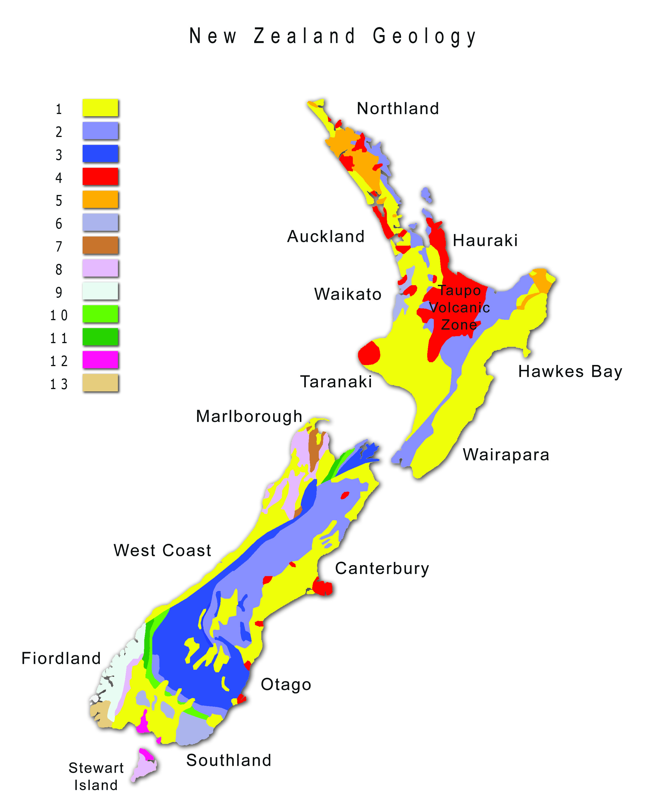 Map of New Zealand Geology.Legend/Key: 1=Sediments (Cretaceous and Cenozoic); 2=Greywacke (Permian and Triassic); 3=Schist (Carboniferous to Cretaceous); 4=Volcanic rocks (Cretaceous and Cenozoic); 5= Sediments and ophiolites (Northland and East Coast allochthon) (Cretaceous and Oligocene); 6=Pyroclastic rocks (Triassic and Jurassic); 7=Limestone, clastics and volcanic rocks (Central and Eastern sedimentary zone) (Cambrian to Devonian); 8=Granitoids (Paleozoic and Cretaceous); 9=West Fiordland metamorphic zone (Paleozoic and Cretaceous); 10=Ophiolites and pyroclastics (Permian); 11=Volcanic rocks (including pyroclastics) (Permian); 12=Mafic and ultramafic complexes (Paleozoic and Cretaceous); 13=Greywacke (Western sedimentary zone) (Cambrian to Ordovician).